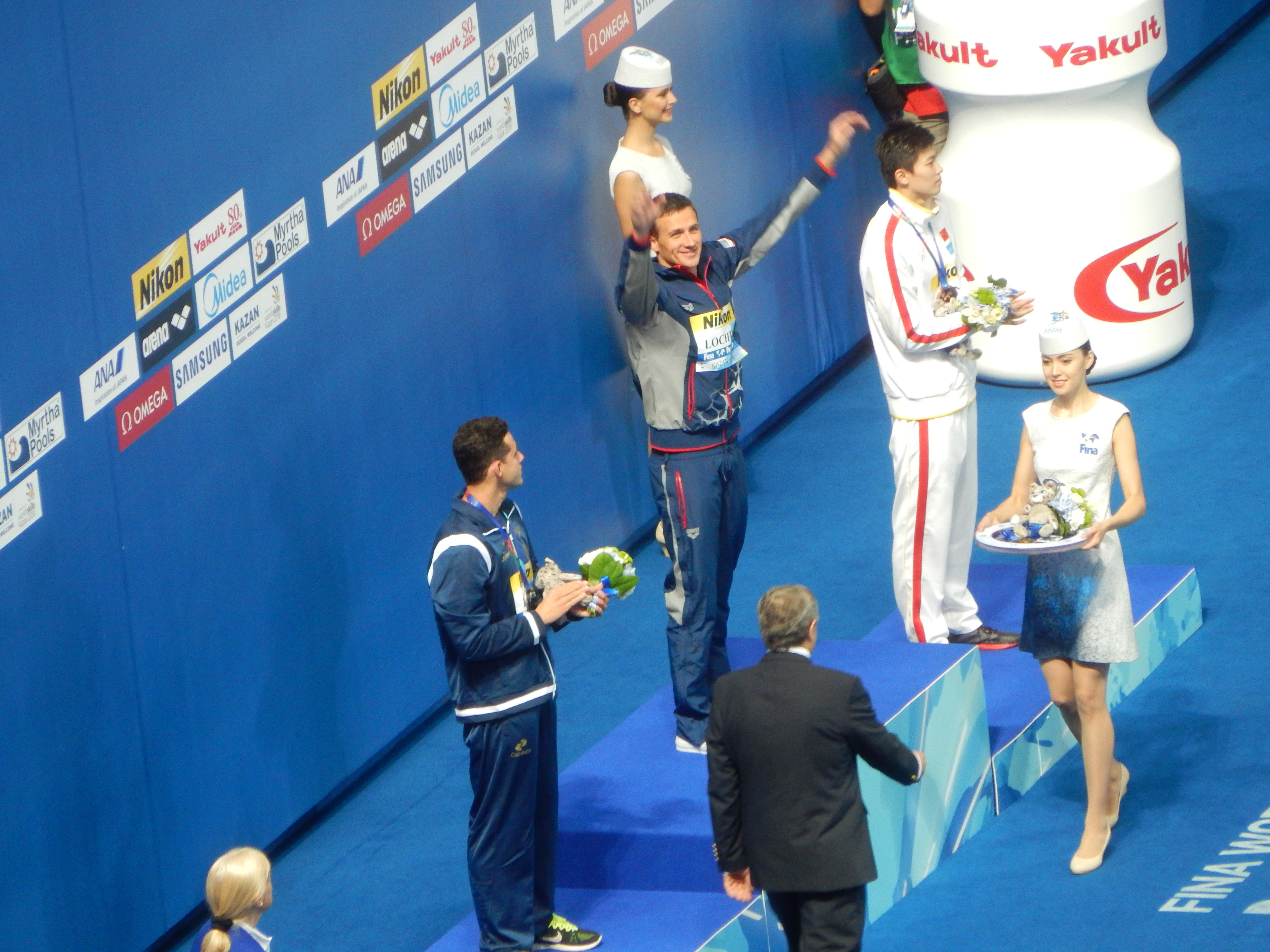 Medallists at the men's 200 metres IM in Kazan 2015